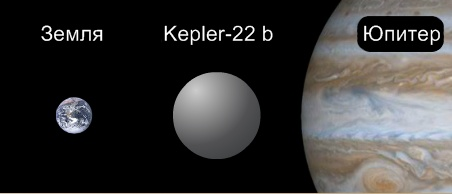 Comparative sizes of Earth, Kepler-22 b and Jupiter.